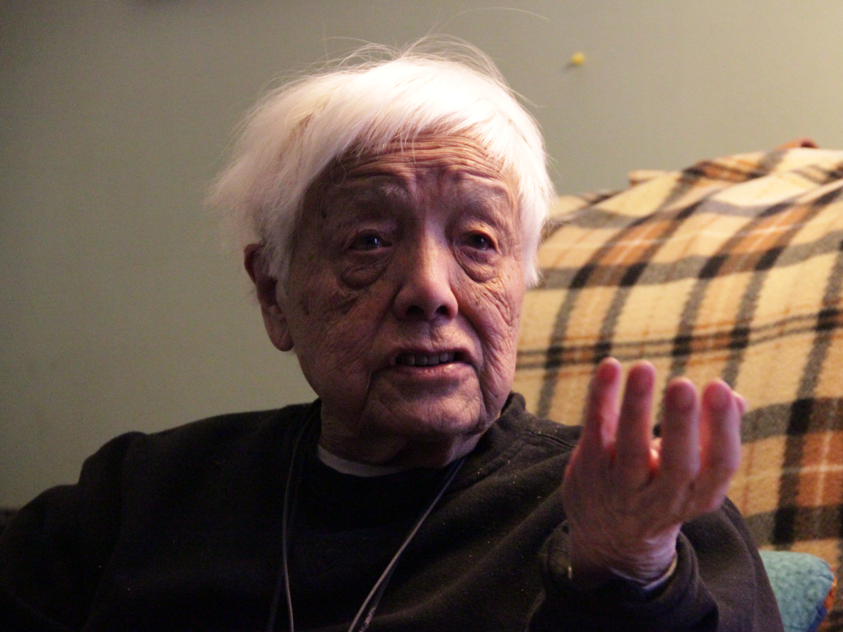 Grace Lee Boggs at her home in Detroit on February 21, 2012.